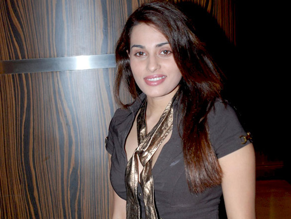 Indian singer Shraddha Pandit at the audio release of 'Kuchh Karriye'